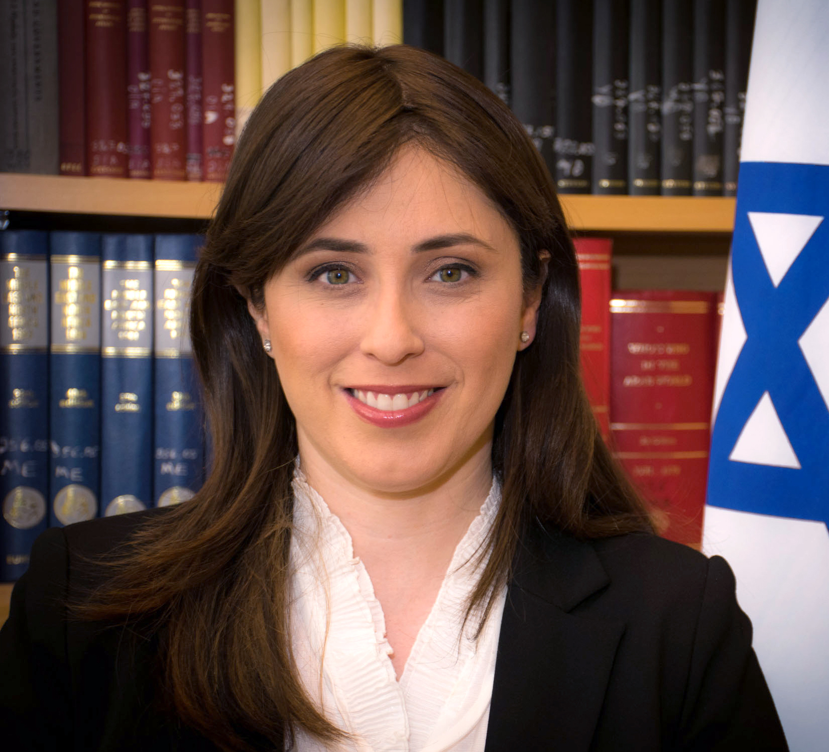 Tzipi Hotovely an Israeli politician